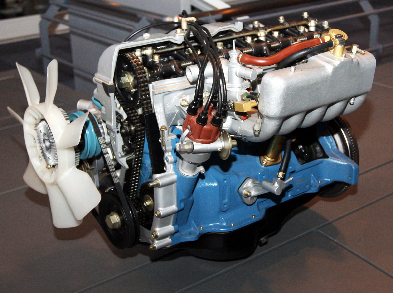 1973 Toyota M-E Type engine. L6 1,988cc.